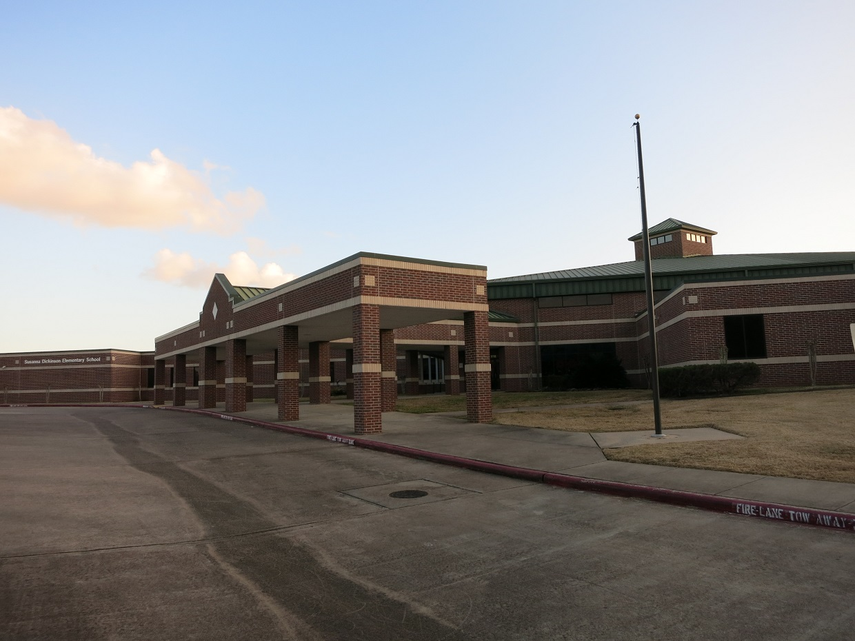 Photo shows Susanna Dickinson Elementary School at 7110 Greatwood Parkway in Greatwood, Sugar Land, Texas. The school is part of the Lamar Consolidated Independent School District.